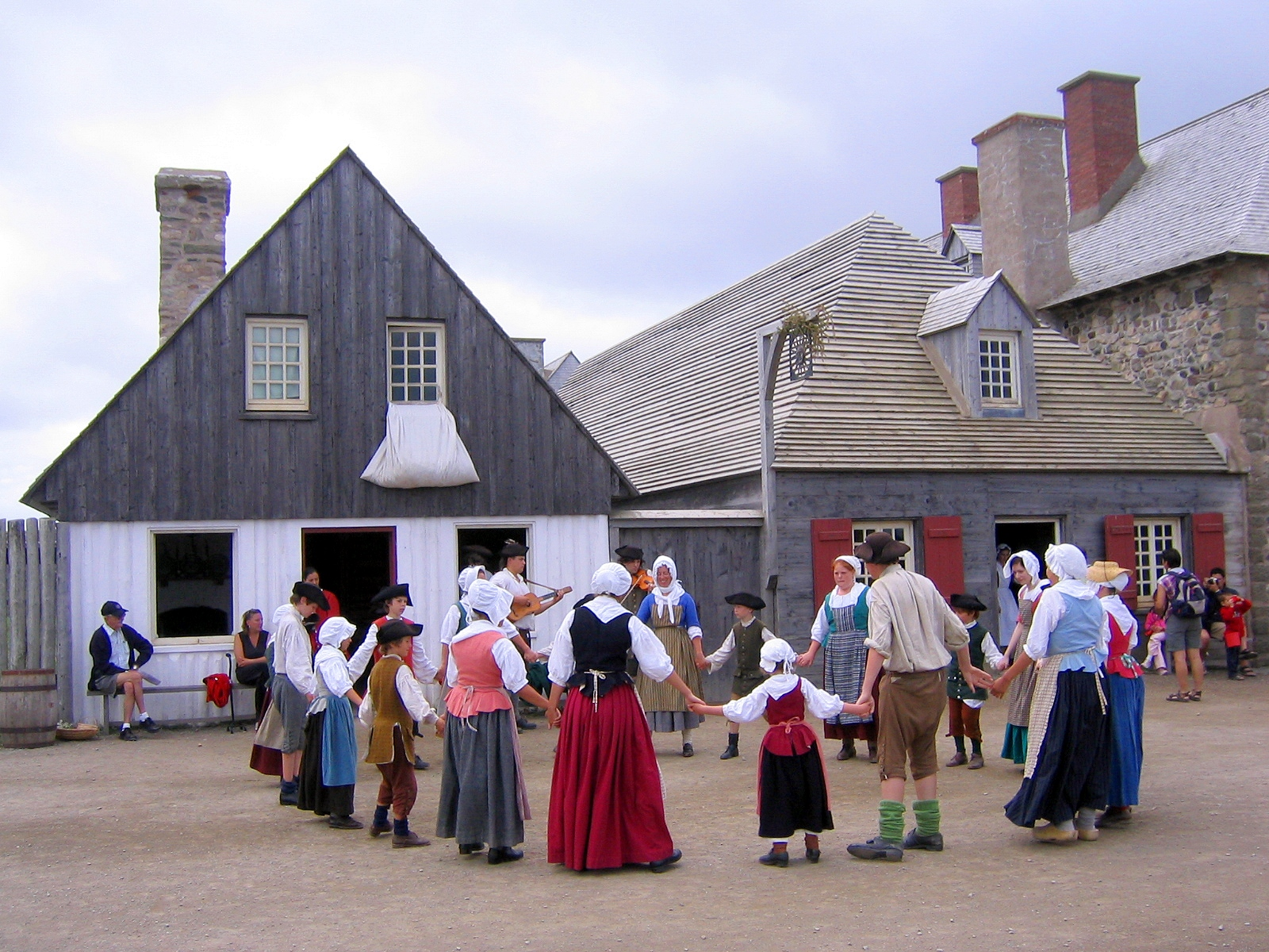 Fortress of Louisbourg, Cape Breton Island, Nova Scotia